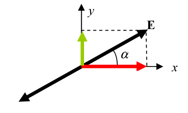 Decomposition of a linear polarized electromagnetic wave